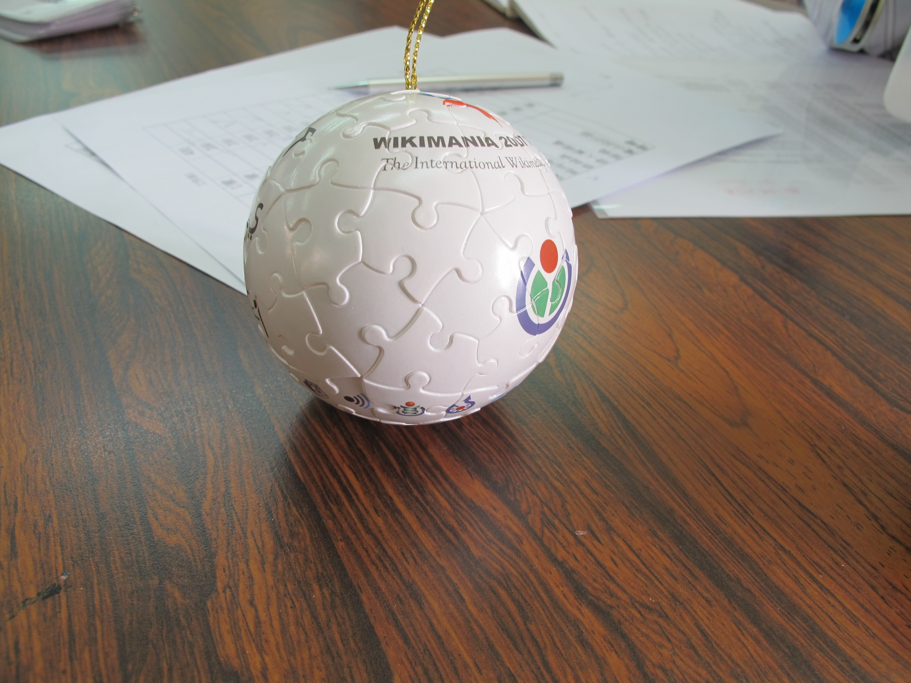 Wikimania 2007 puzzle ball, at 2010 Winter Meetup in Taiwan.